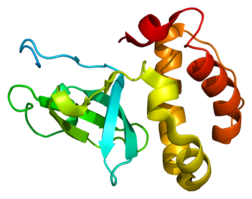 Structure of the DNMT3B protein. Based on PyMOL rendering of PDB 1khc.